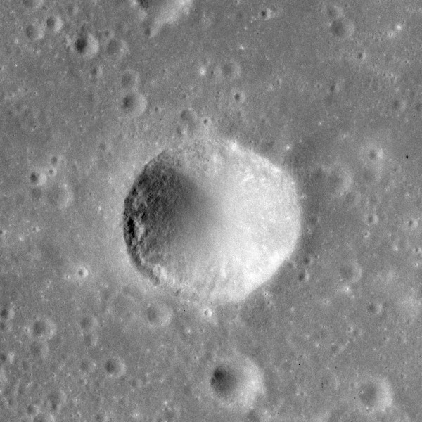 Crater Zasyadko on the Moon. Photographed from Apollo 16 (1972). The original was cropped, rotated (to make north on top), brightness-adjusted and contrast-adjusted.